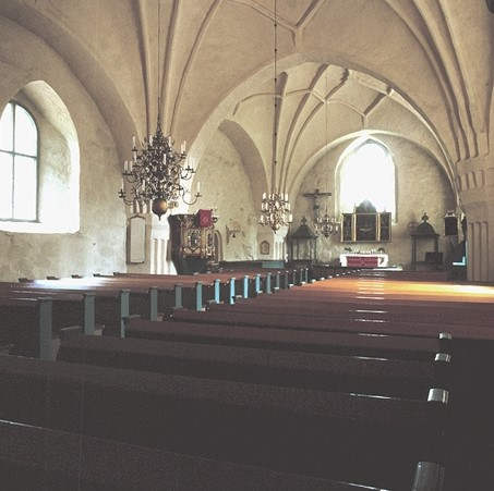 Interior of the St. Olof's Church, Ulvila, Finland.